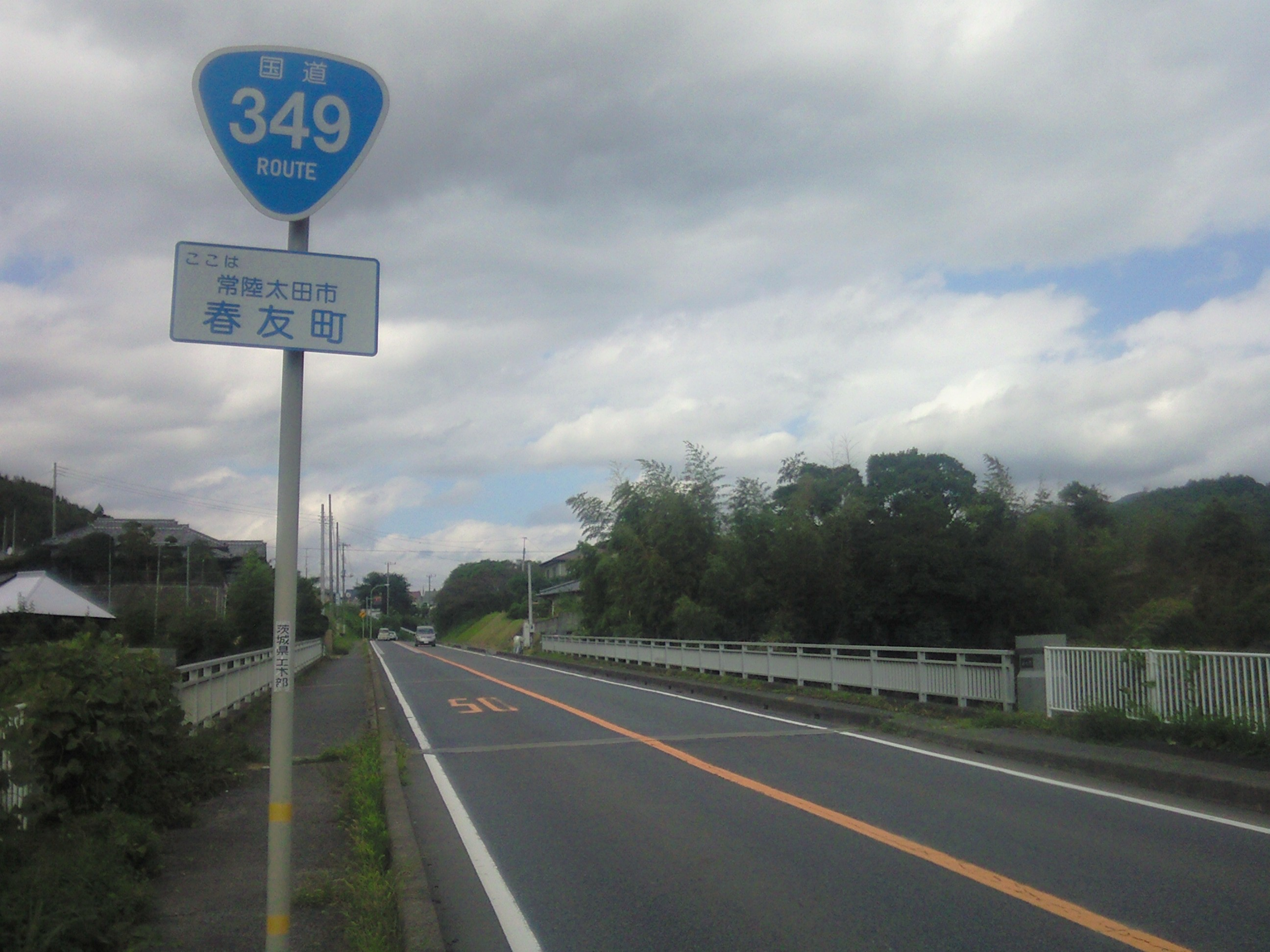 Route 349 (at Hitatioota City.)